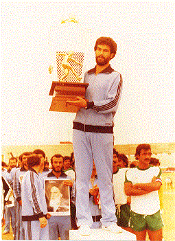 جام قهرمانی مسابقات جام قائد اعظم سال 1361